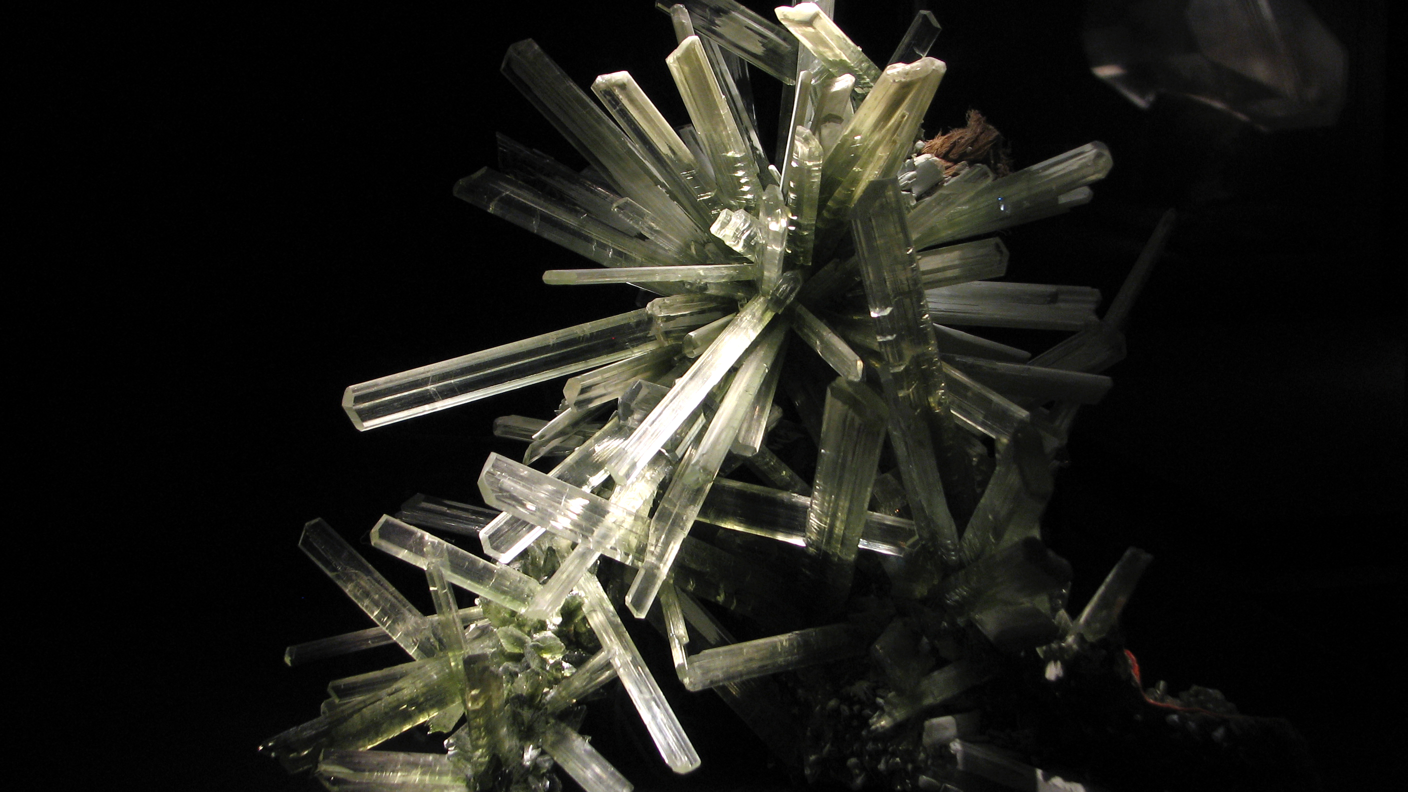 Selenite (gypsum) Monoclinic calcium sulfate Naica, Chihuahua, Mexico Wikipedia Loves Art at the Houston Museum of Natural Science This photo of item # [1] at the Houston Museum of Natural Science was contributed under the team name "Assignment_Houston_One" as part of the Wikipedia Loves Art project in February 2009. Houston Museum of Natural Science The original photograph on Flickr was taken by mockbird—please add a comment to the original Flickr page whenever a use has been made on Wikipedia or another project. Project galleries on Flickr: this institution, this team